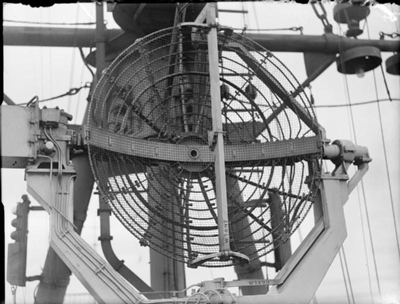 The Royal Navy during the Second World War A general surface search Radar set with a Type 277 aerial fitted to HMS Swiftsure, a Minotaur class cruiser at Scapa Flow. The parabolic reflector is made of wire mesh, in order to lower its weight and wind loading. On the left is the drive motor that is used to stabilize the antenna vertically as the ship rolls. Opposite on the right is a rotating waveguide connection. The waveguide, labeled W7897, runs behind the reflector to the top, and then down the face of the reflector. A second waveguide, labeled W7899 (or W5899), connects the rotating joint to the base of the mount, where it meets another rotating connection.